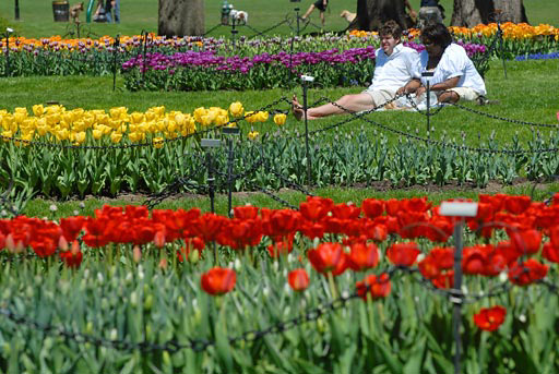 Nate Buccieri and Liana Martino enjoy an afternoon in Washington Park surrounded by the tulips on Tuesday, May 8, 2007. (Paul Buckowski / Times Union, Albany, NY)